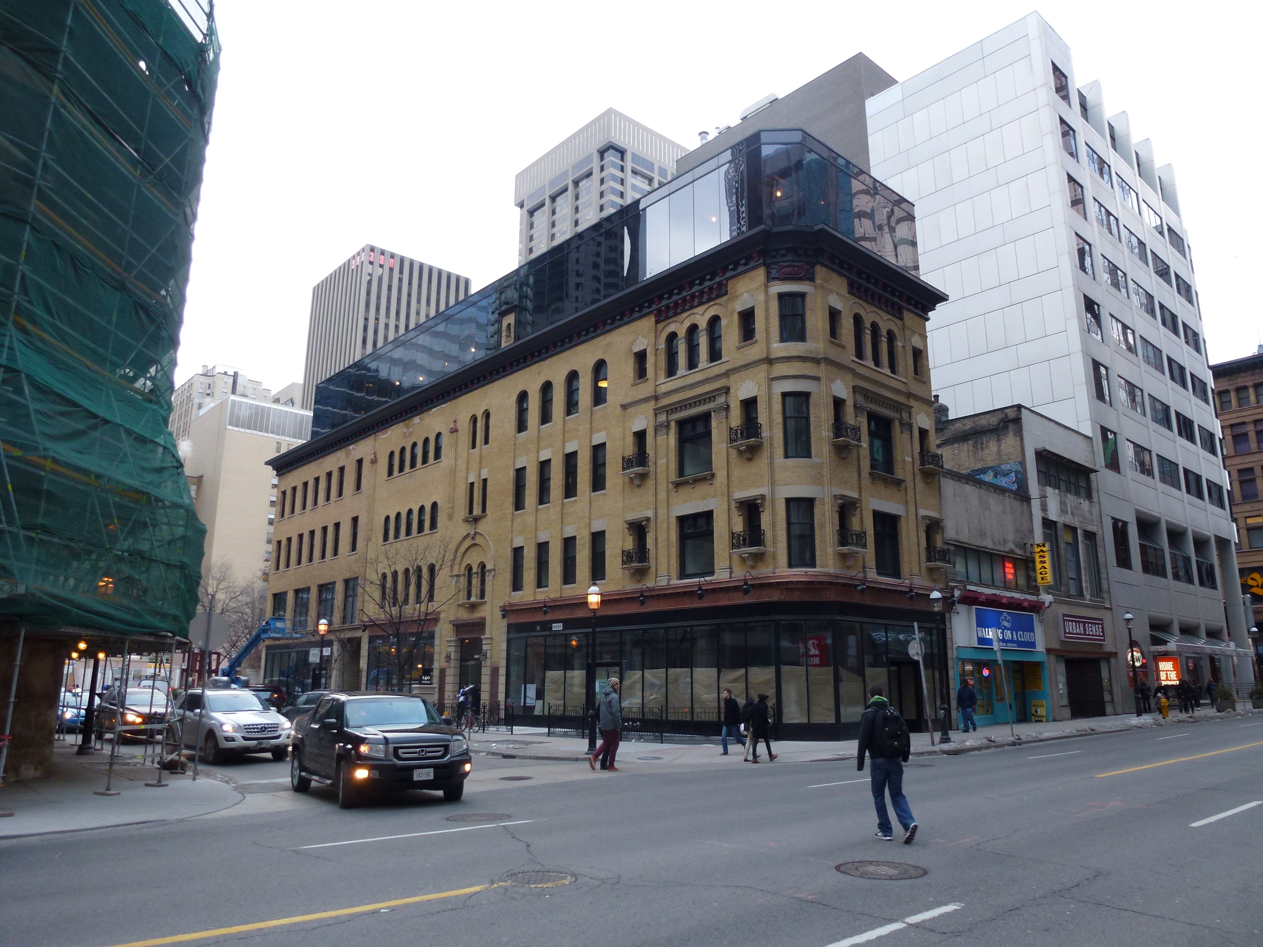 140 Yonge Street. This building was recently the subject of an extensive restoration.